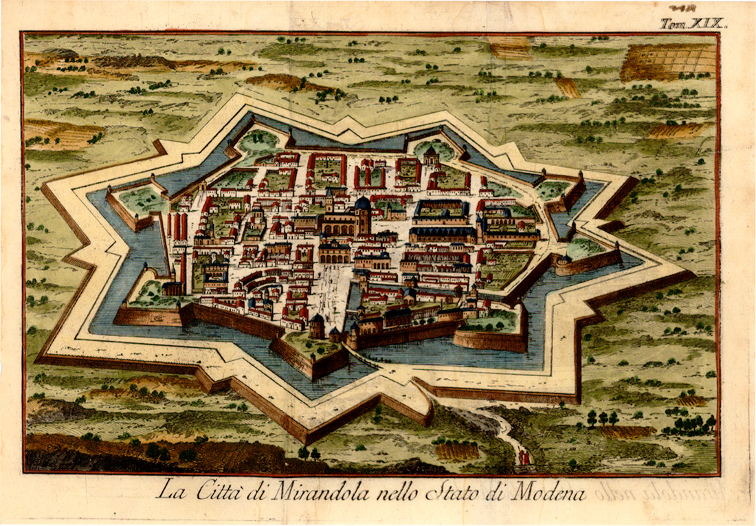 Scarce birdseye view of the town of Mirandola, in the Duchy of Modena, prior to the reunification of Italy by Victor Emmanuel. Mirandola was founded as a Renaissance city-fortress. For 4 centuries, it was a possession of the Pico family, whose most famous family member was the polymath Giovanni Pico della Mirandola. It was besieged in 1510 and 1551, before being acquired by the Duchy of Modena in 1711. This map appeared in Albrizzi's Storia di tutti i popoli del Mondo, the Italian edition of Thomas Salmon's popular History of the World.